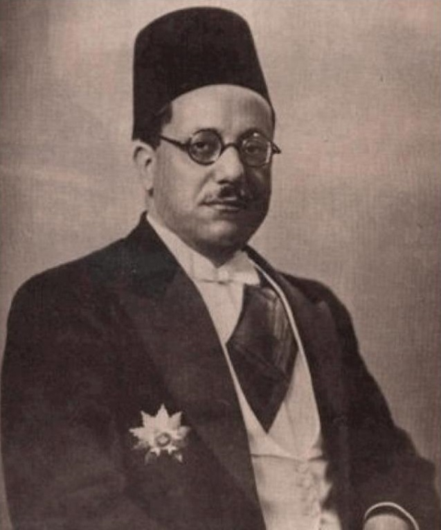 Makram Ebeed